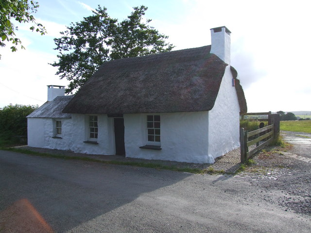 Penrhos Cottage, Nr Maenclochog, SW Wales To the south west of Maenclochog is Penrhos Cottage, a tiny cottage that was once home to a family of 12! This is a typical North Pembrokeshire thatched cottage that has survived almost unchanged since the 19th Century. Built as an ‘overnight’ cottage in about 1800 and later rebuilt in stone, Penrhos, with its original Welsh oak furniture, provides a unique opportunity to view the cottager's life in the past.